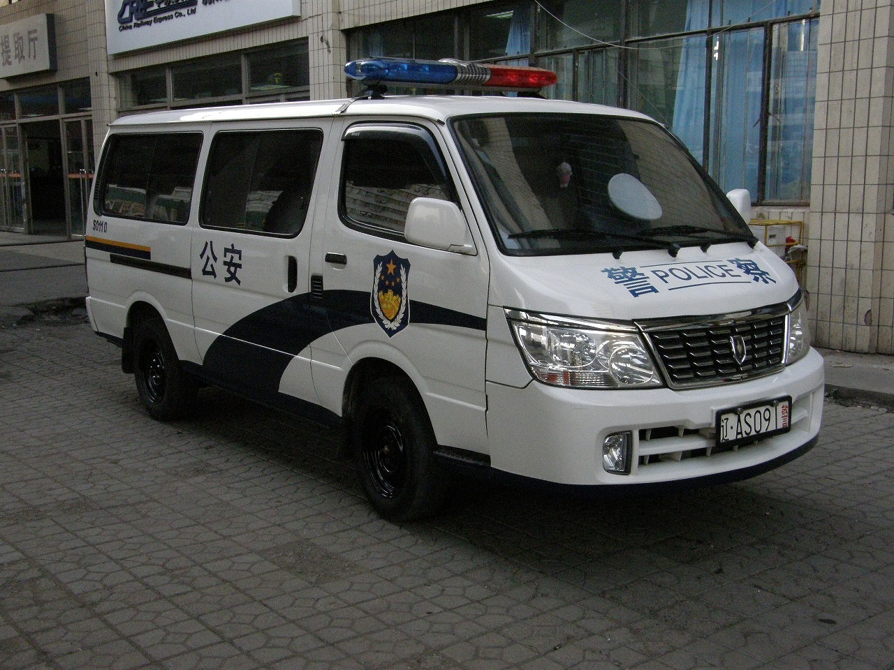 華晨金杯汽車（Brilliance_Jinbei）の｢海獅｣シリーズトヨタハイエース